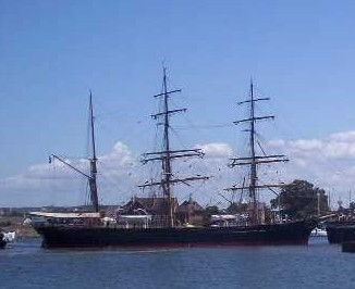 The James Craig leaving Forgacs Dockyard 19/02/07. (cropped)